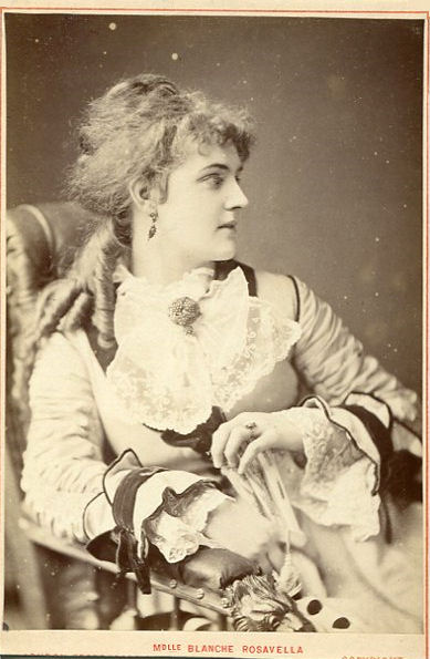 Blanche Roosevelt photographed in Paris in about 1873